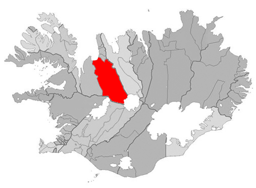 Based on Municipalities of Iceland.png.